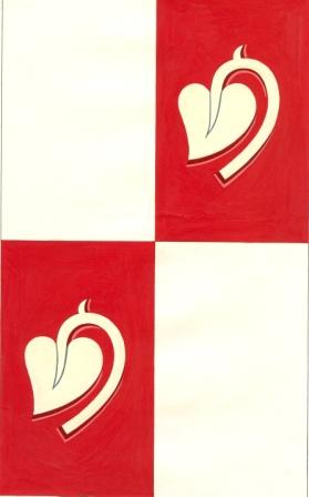 Flag of Doubravy